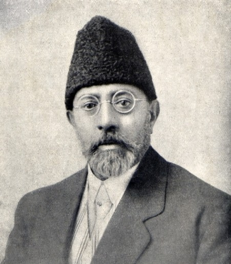 Official portrait of Mahmud Tarzi (1920).